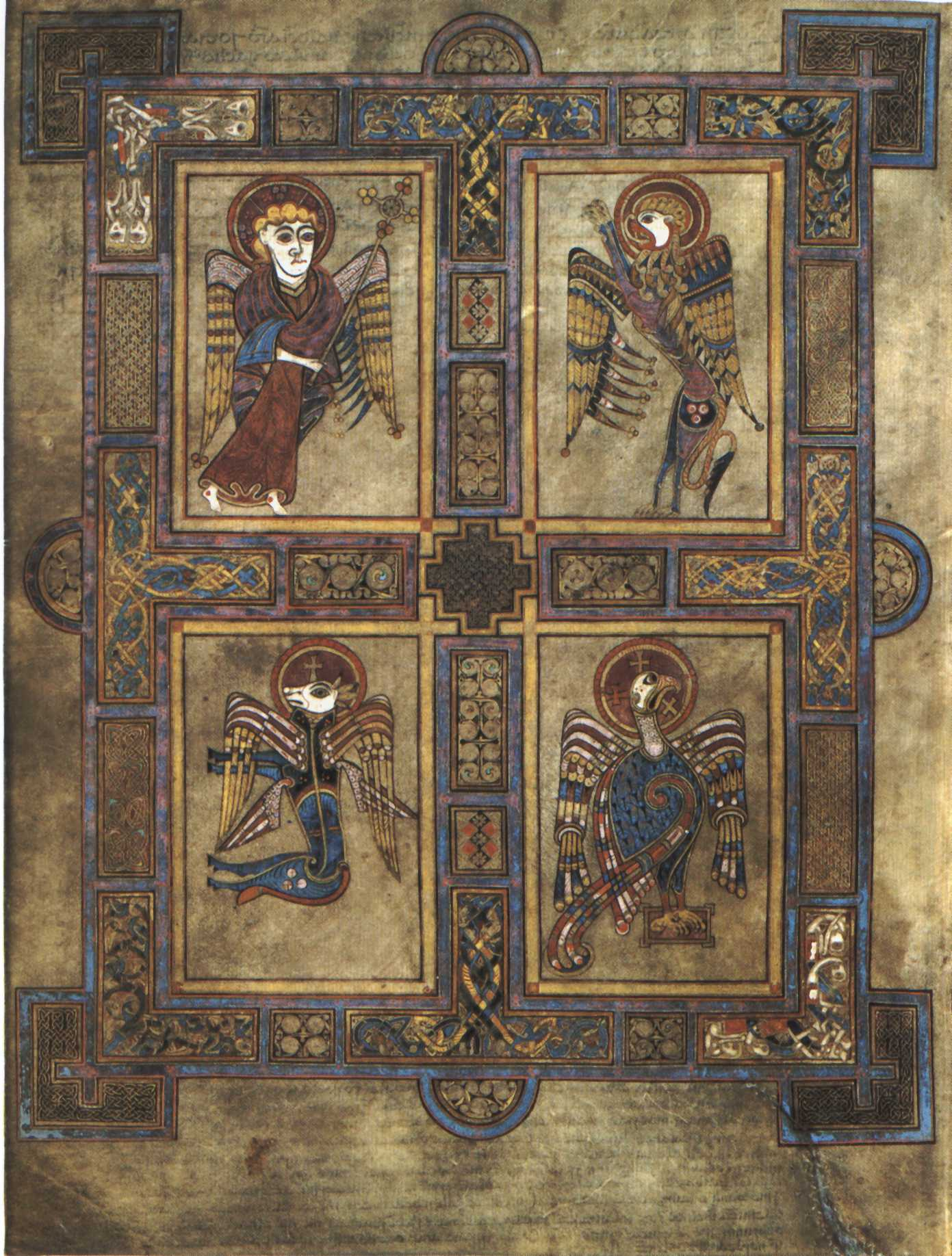 Image of Folio 27v, with the four evangelist symbols from the Book of Kells, a 1200 year old book. Scanned from: Meehan, Bernard; The Book of Kells': an illustrated introduction to the manuscript in Trinity College Dublin. London: Thames and Hudson, 1994. p. 8.